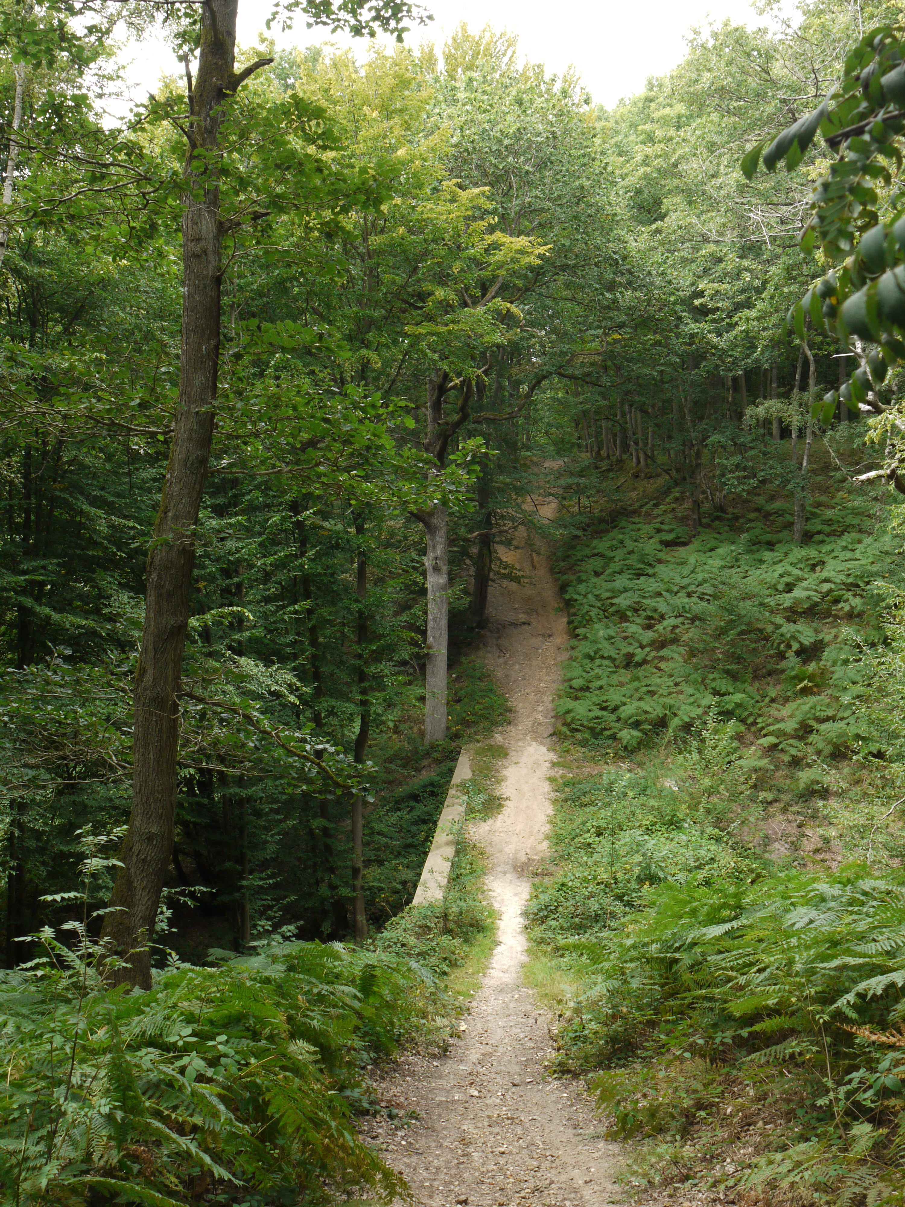 Footpath in the Foret de Rambouillet, Ile de France